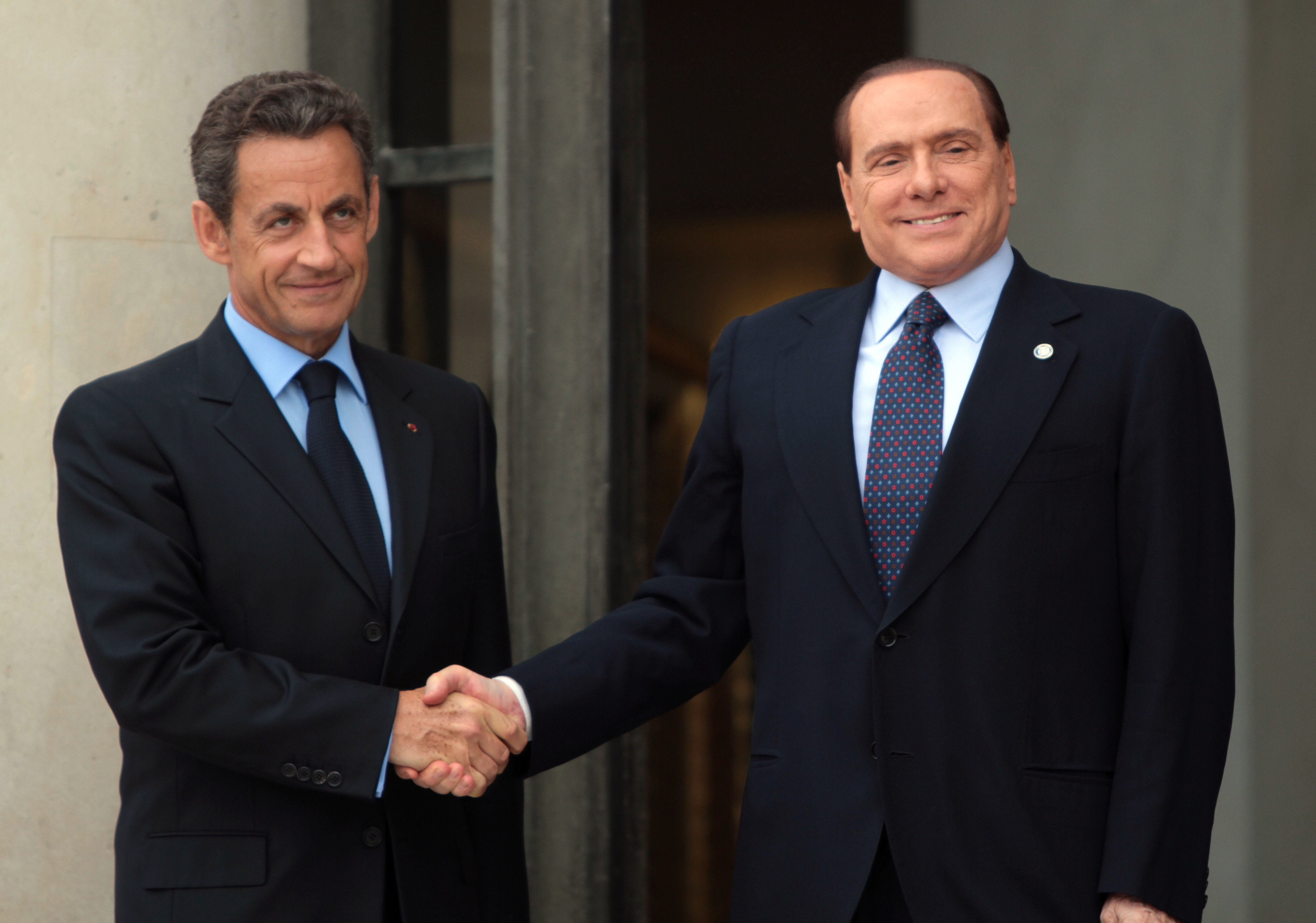 International Conference in Support of the New Libya, September 1, 2011.